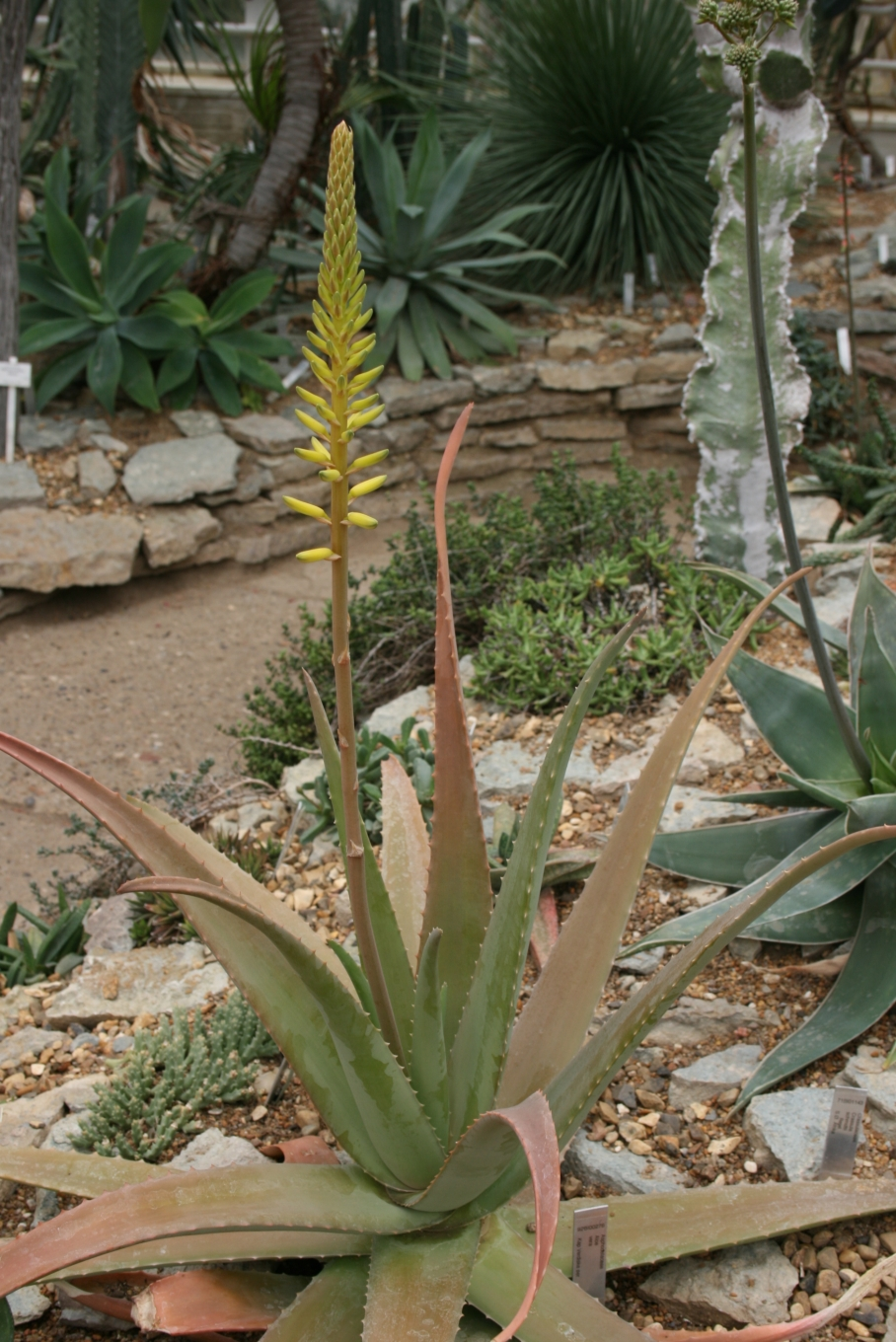 Aloë vera: Flowering plant (Århus Botanical Garden)